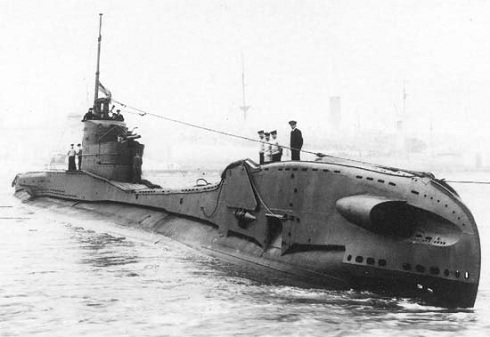 SM U-29 Submarine of the Austro-Hungarian Navy. IT was built by the Ganz-Danubius company.